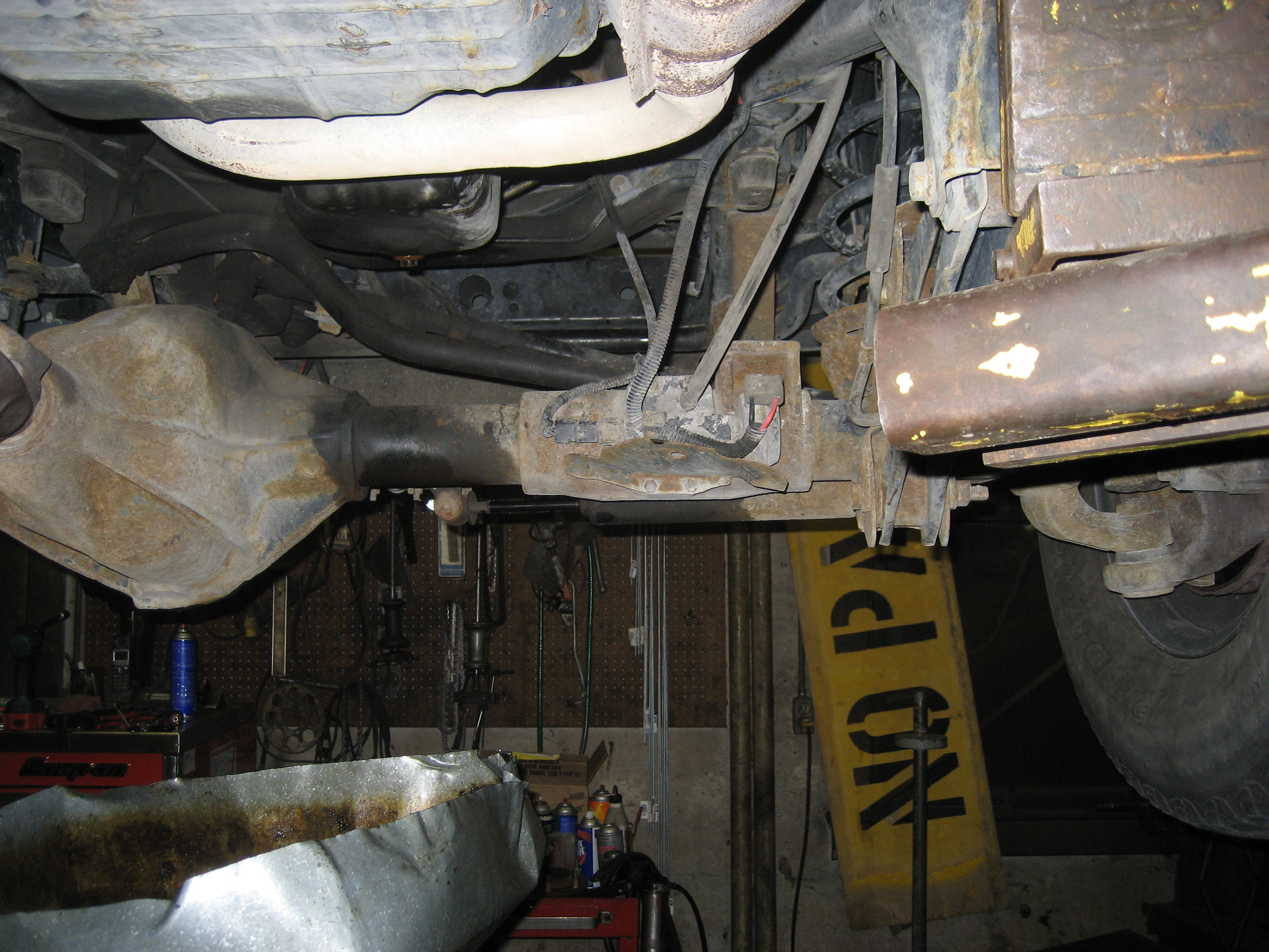 Center Axle Disconnect on a 99 Dodge Ram 2500 HD.